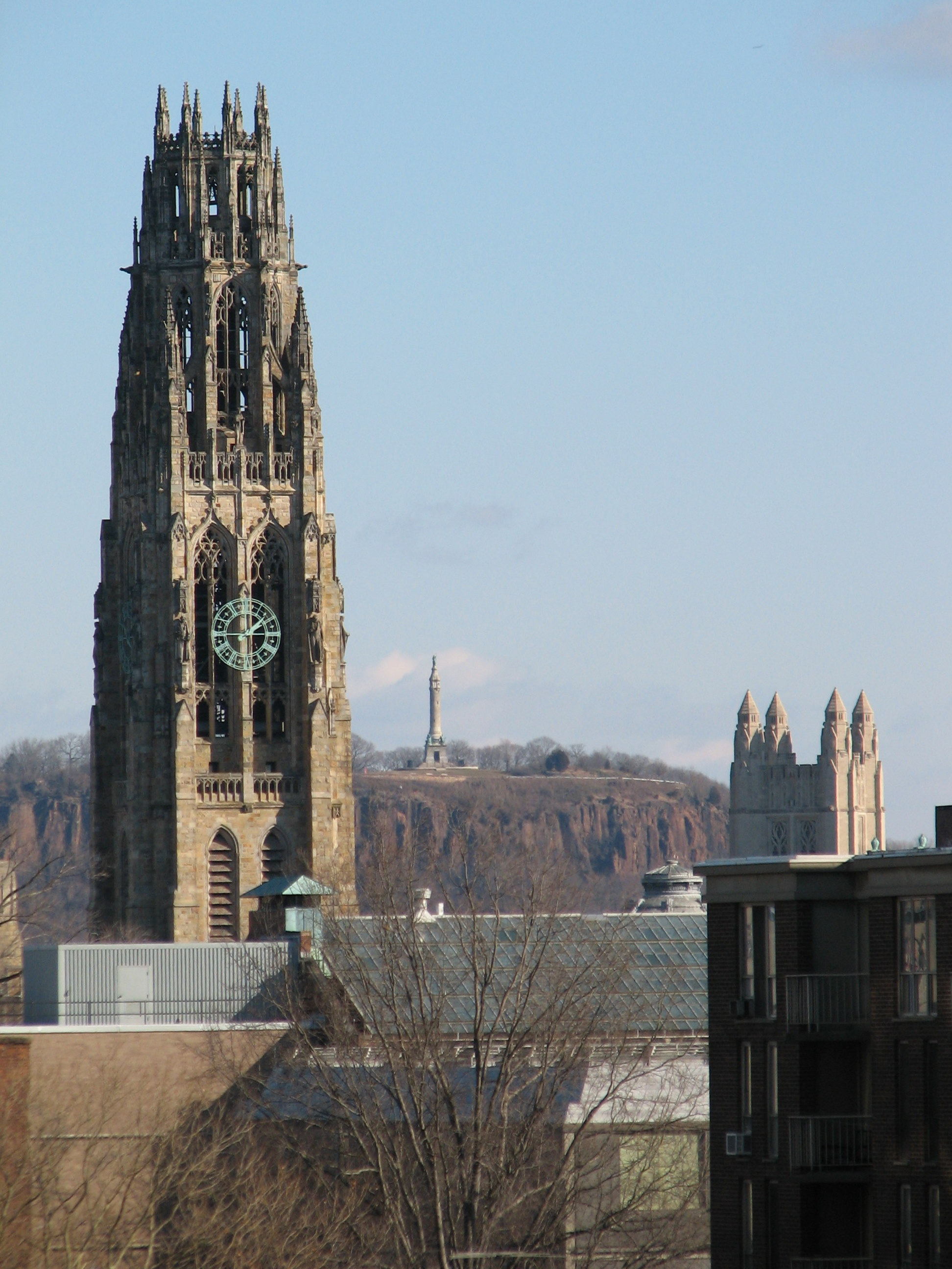 Three hallmarks of the New Haven skyline (from left to right): Harkness Tower, the Soldiers and Sailors Monument, and the white top of Sheffield-Sterling-Strathcona Hall. Picture taken from the Air Rights Garage.